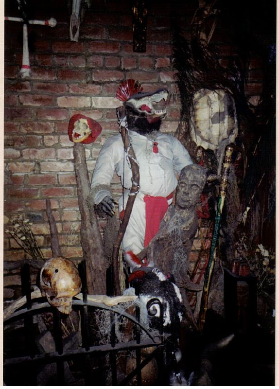 "Voodoo Museum" in the French Quarter, New Orleans, 1991. Seriously cheesey tourist trap, way fun.